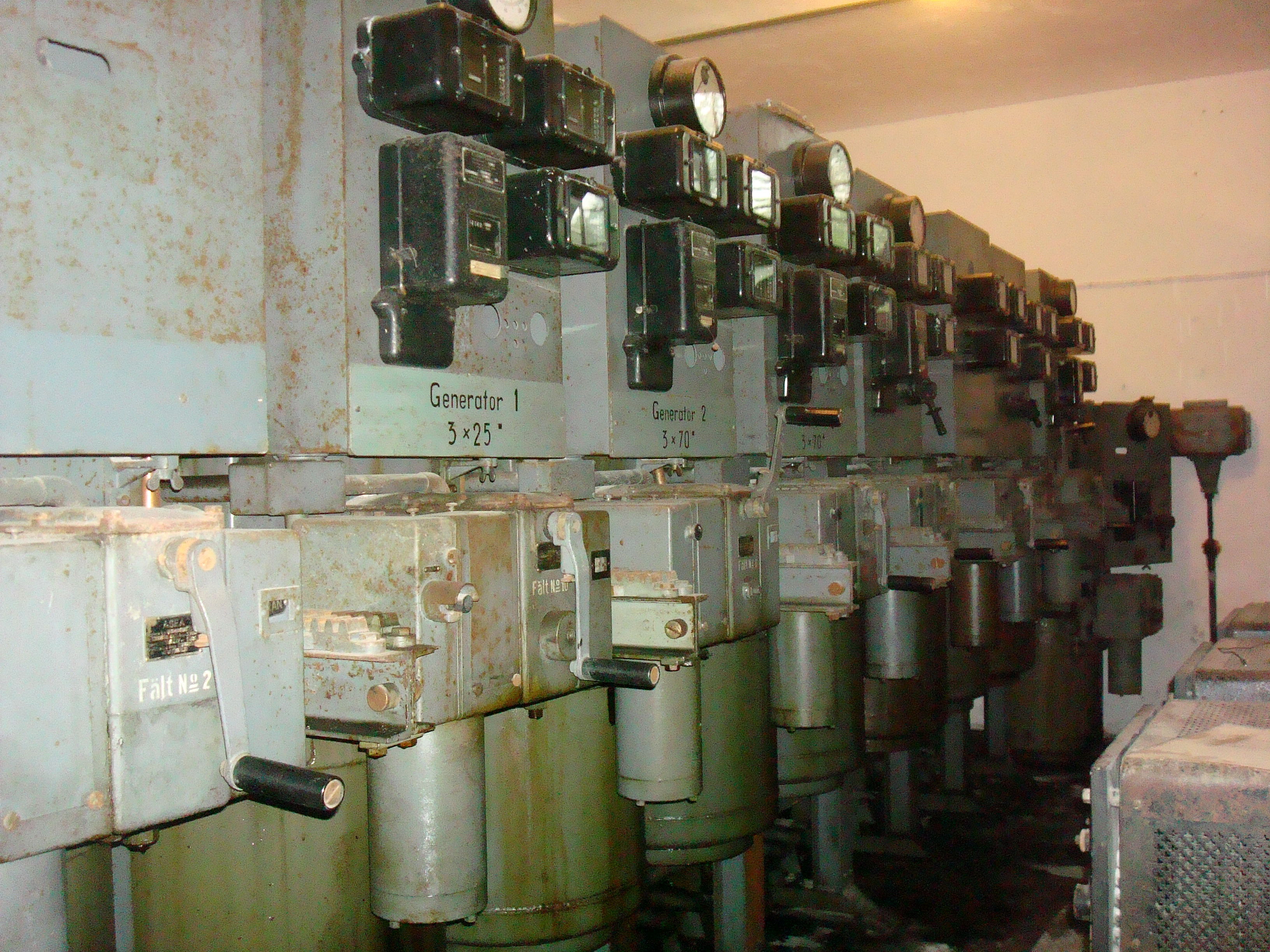 Pictures on the power station in Huskvarna.